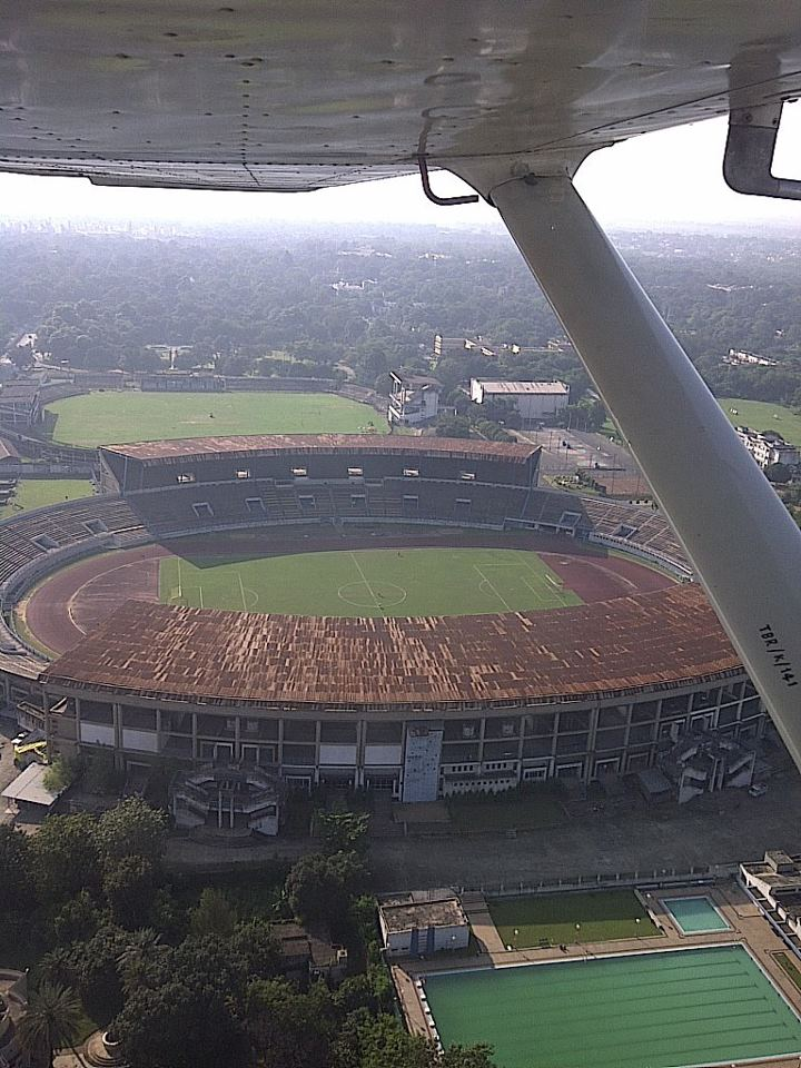 Aerial view of Keenan Stadium and JRD sports complex, Jamshedpur